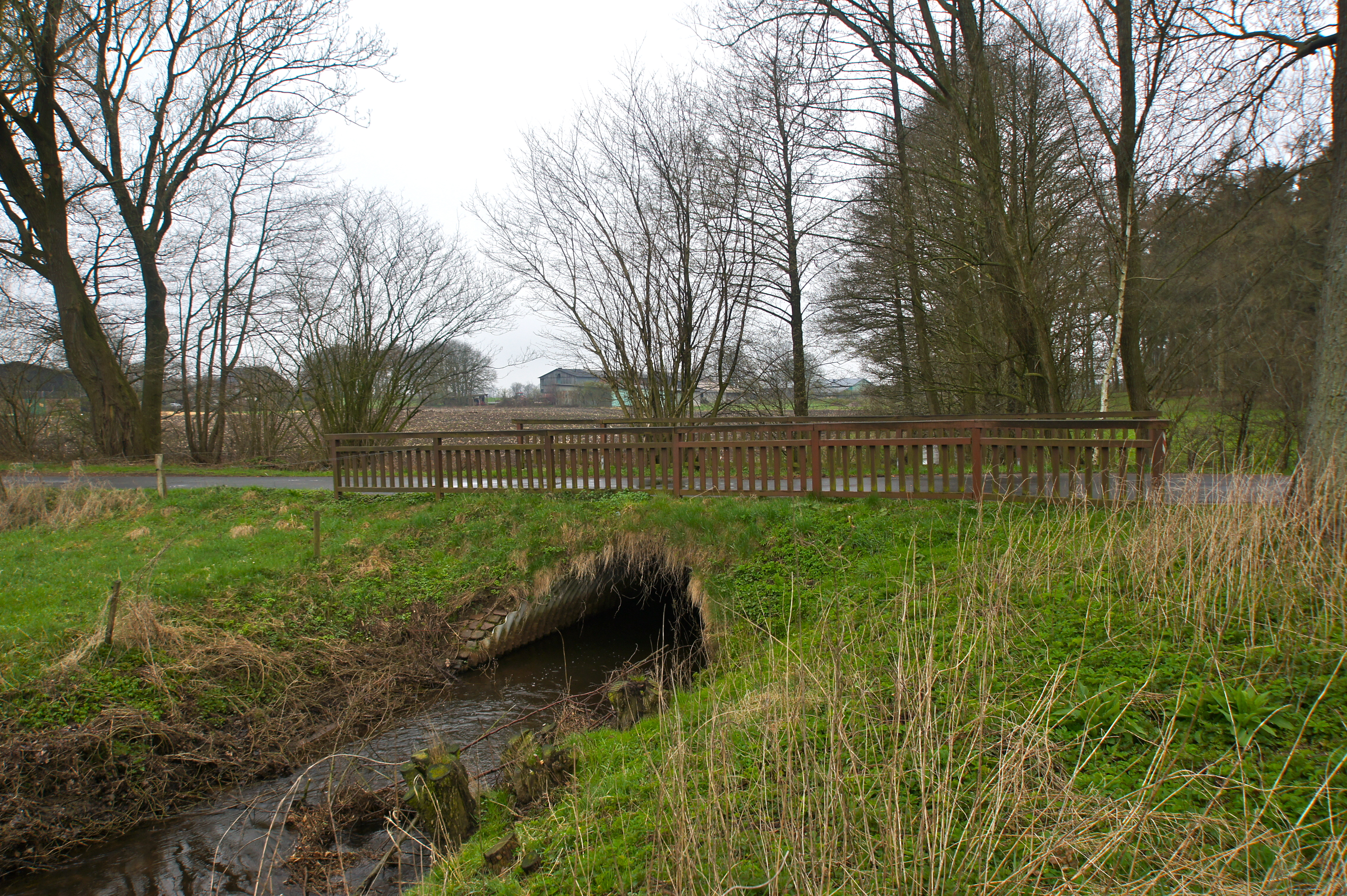 Langeln, Germany: Bridge over the river Krückau at the Vossmoor